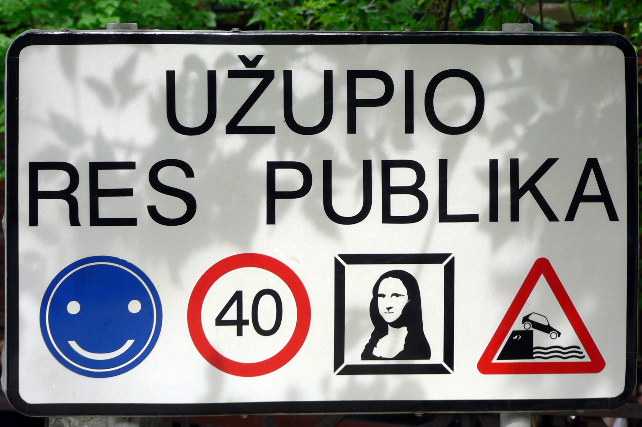 Užupis sign in Vilnius, Lithuania